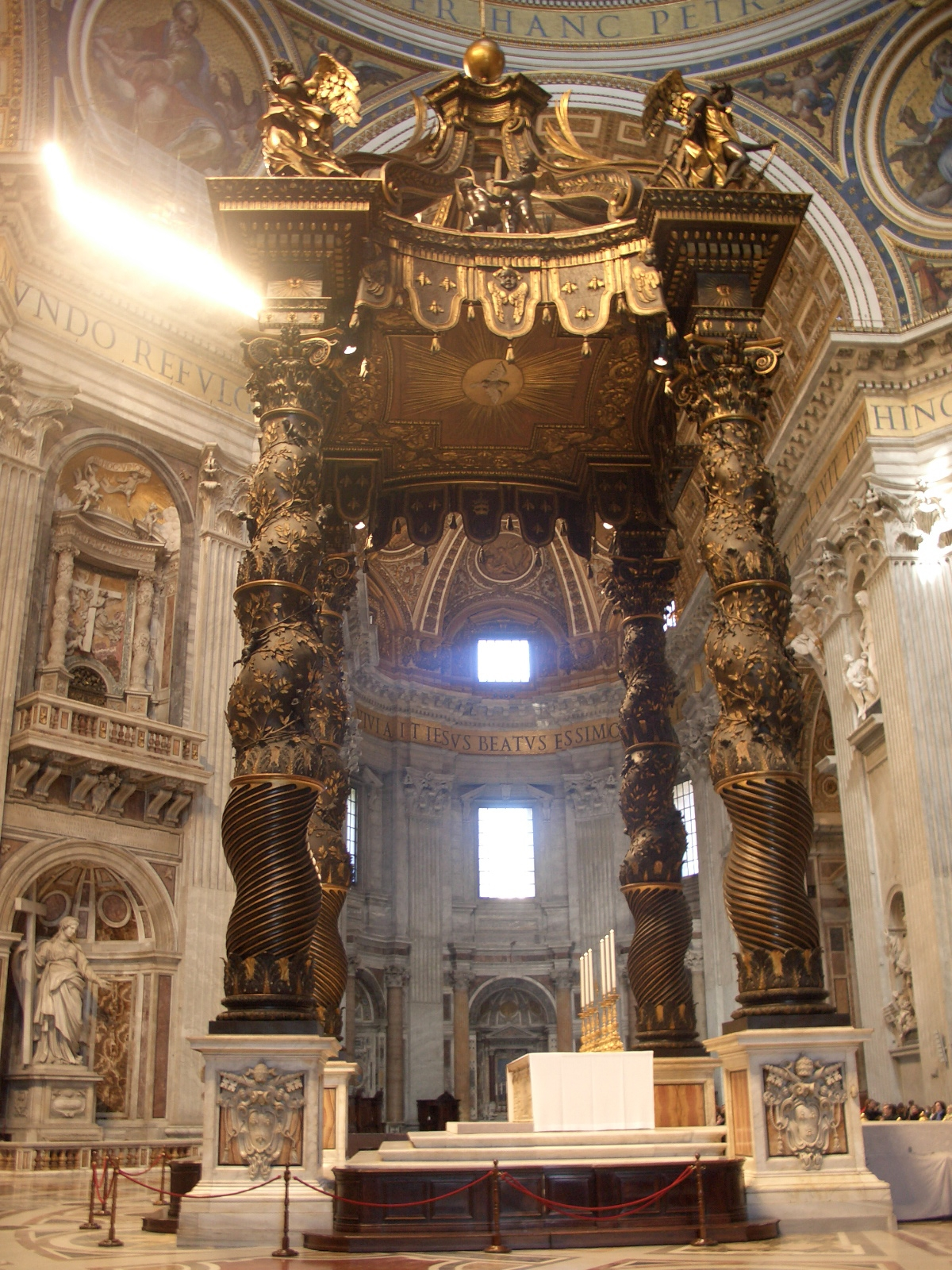 Baldacchino in St. Peter's Basilica